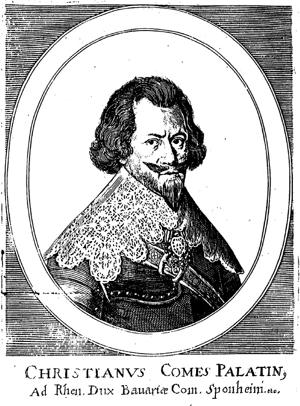 Christian Count Palatine by Rhine, Duke in Bavaria, Count to Sponheim etc. (Christian I, Count Palatine of Birkenfeld-Bischweiler)